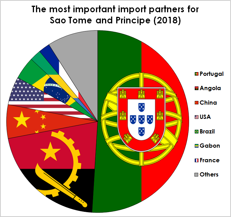 The most important import partners of Sao Tome and Principe (2018)